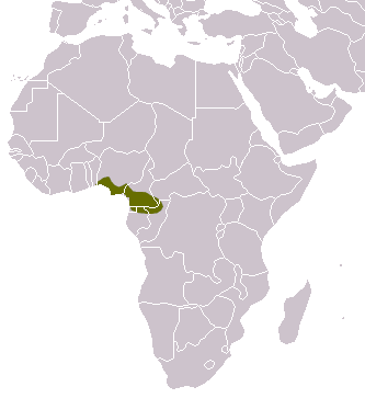 Flat-headed Kusimanse (Crossarchus platycephalus) range